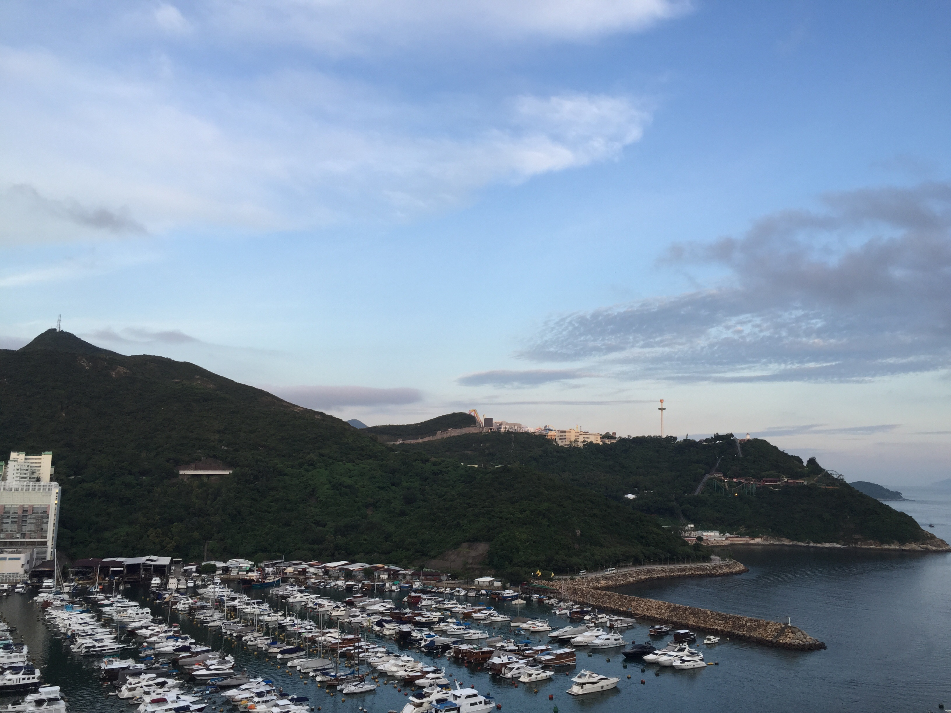 Marina South(view from sky garden of Larvotto)